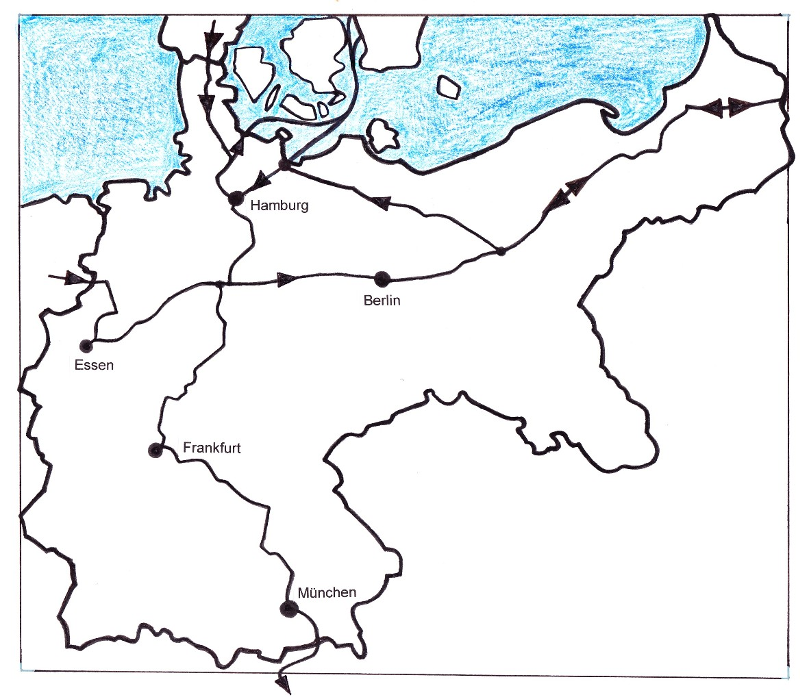 Iwakura Mission - travel through Germany